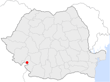 Location of Drobeta-Turnu Severin in Romania.